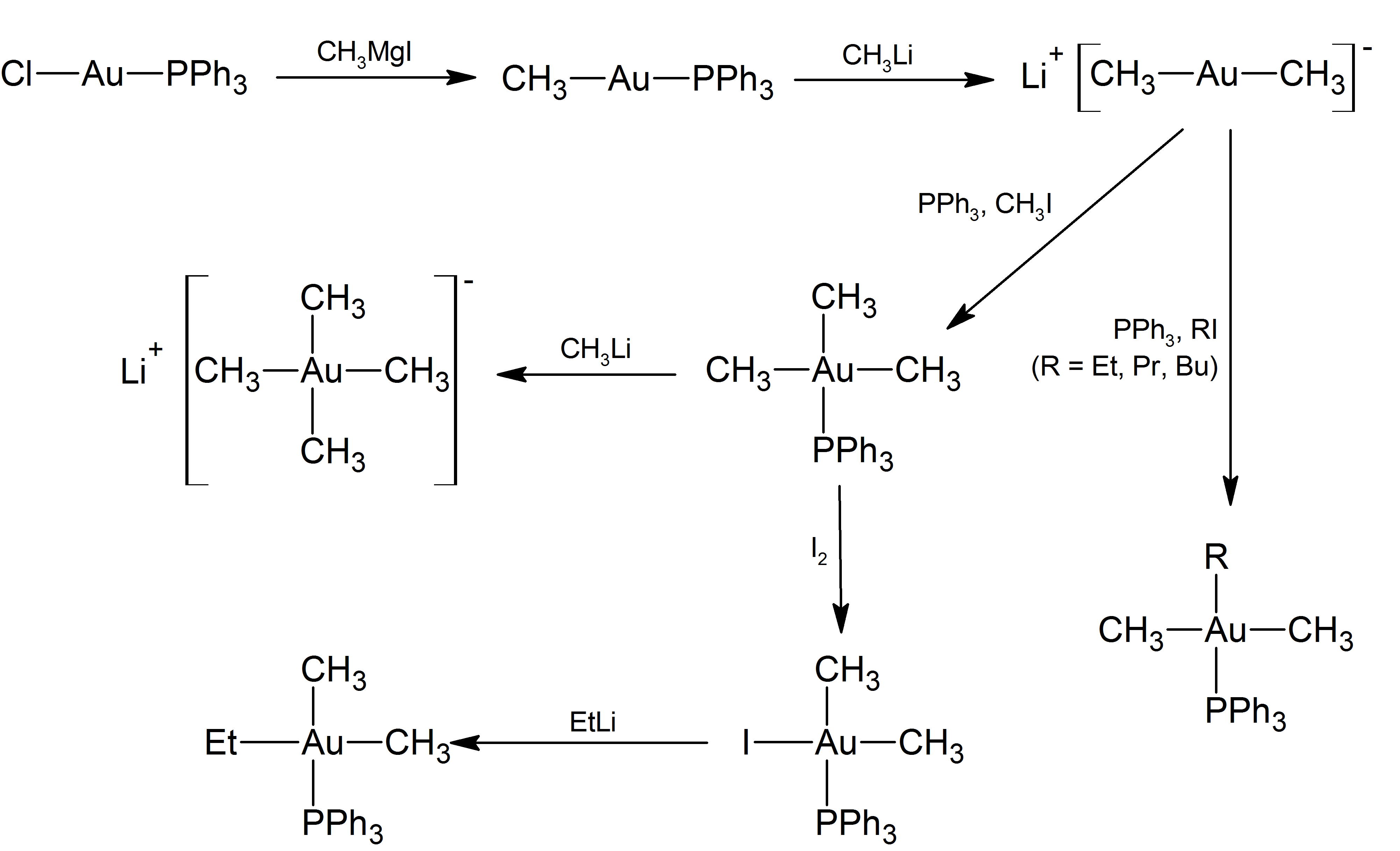 Reaction scheme of gold(I) and gold(III) organometallic compounds, with chloro(triphenylphosphine)gold(I) as the starting compound